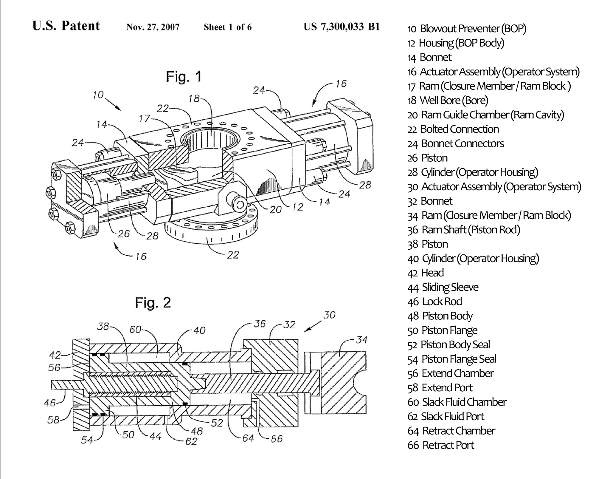 Annotated Patent Drawing of Cameron International Corporation's EVO Blowout Preventer, U.S. Patent 7,300,033 (2007). Legend was added and figure locations were shifted. /* */